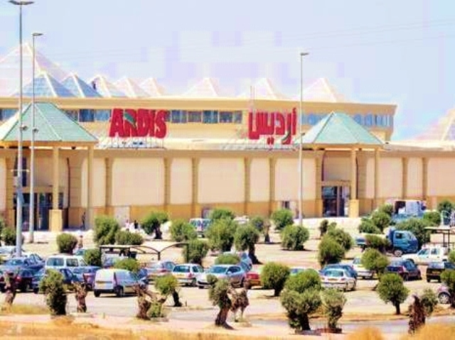 An Ardis Hypermarket Store in Algers, Algeria